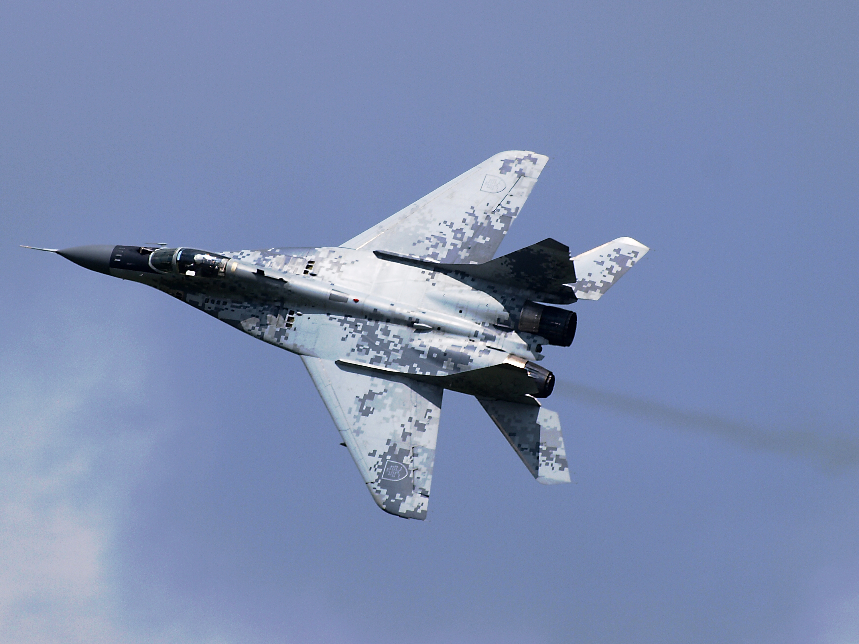 Vzdušné sily armády Slovenskej republiky (Slovak Air Force) MiG-29AS '0921' at Kecskeméti Nemzetközi Repülőnap 2010, flown by Lt. Col Marian 'Buker' Bukovsky. Note the asymmetrically working engines.